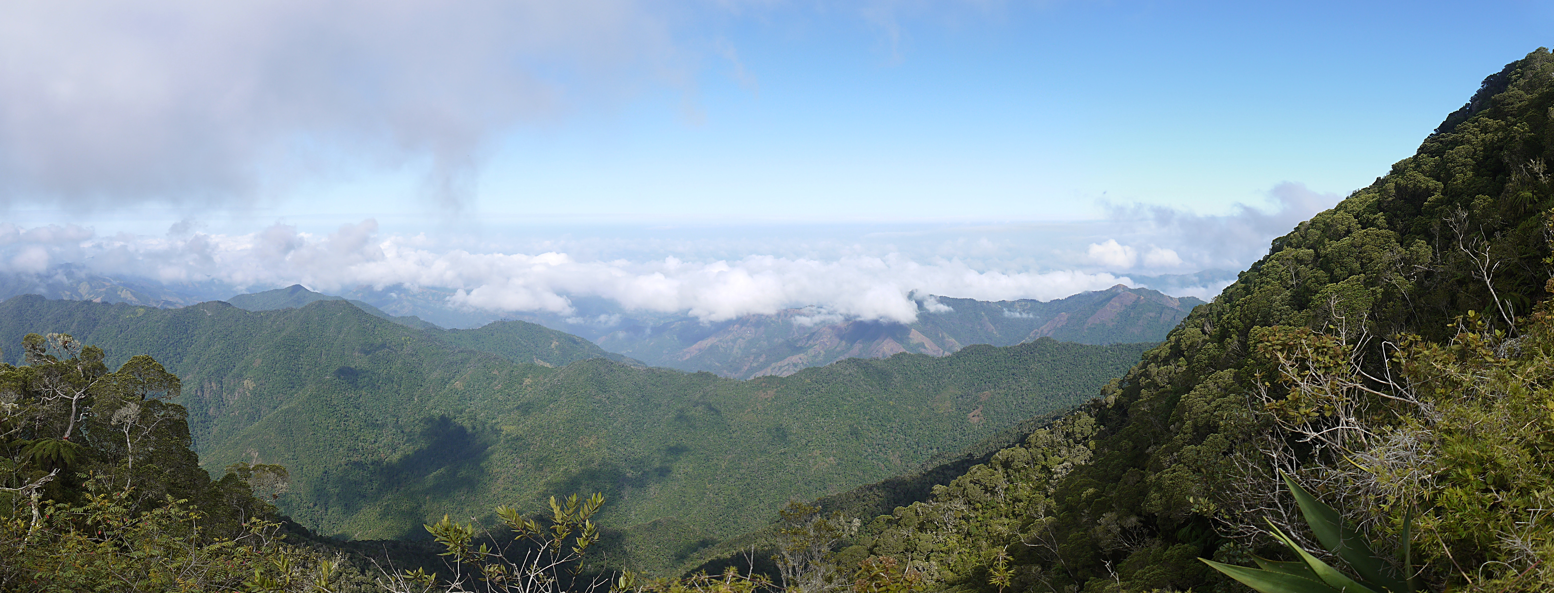 View of the Sierra Maestra and Parque Nacional Turquino — from the trail to Pico Turquino in the range and park, in southeastern Cuba. Located in Guamá Municipality of Santiago de Cuba Province.